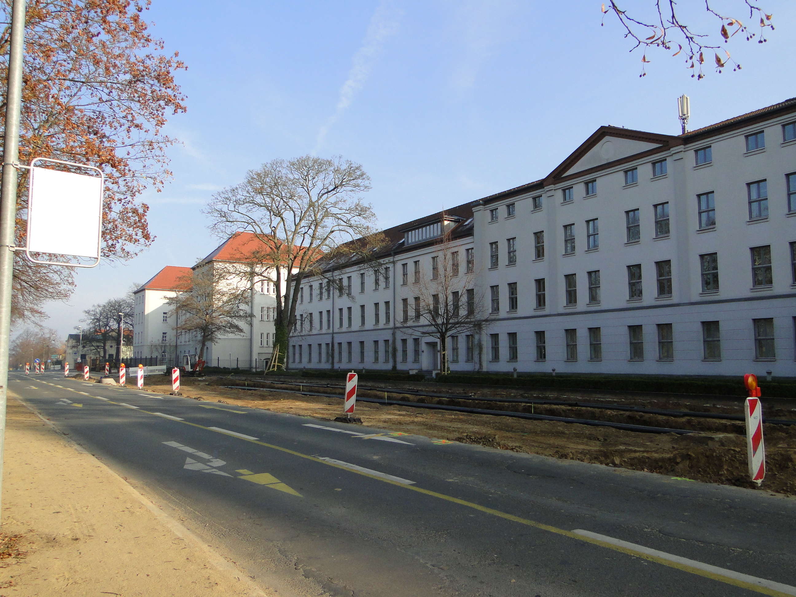 Street Werderstraße in Schwerin, Mecklenburg-Vorpommern, Germany